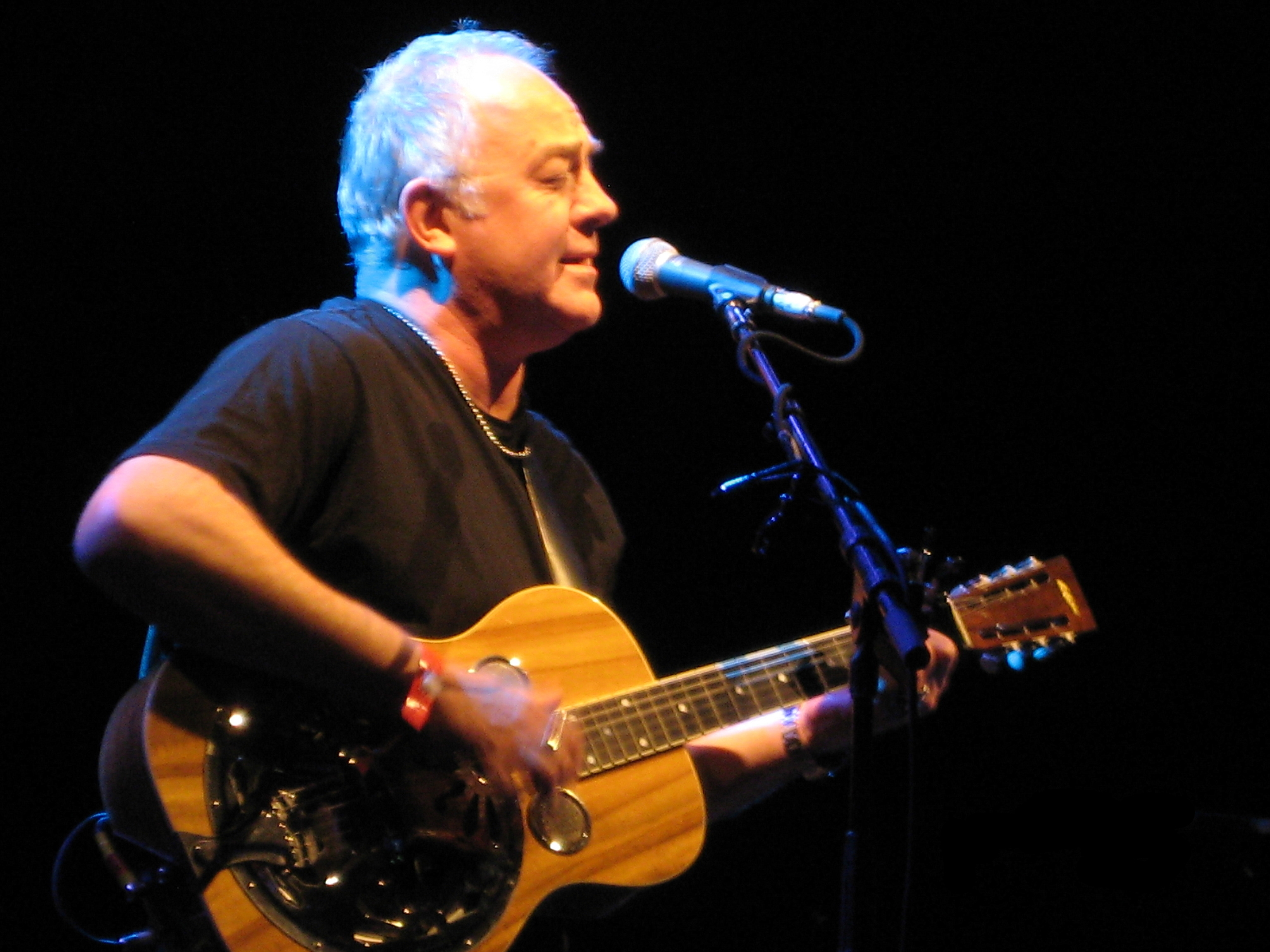 Guitar player Robbie McIntosh perfoming with John Mayer and David Ryan Harris.